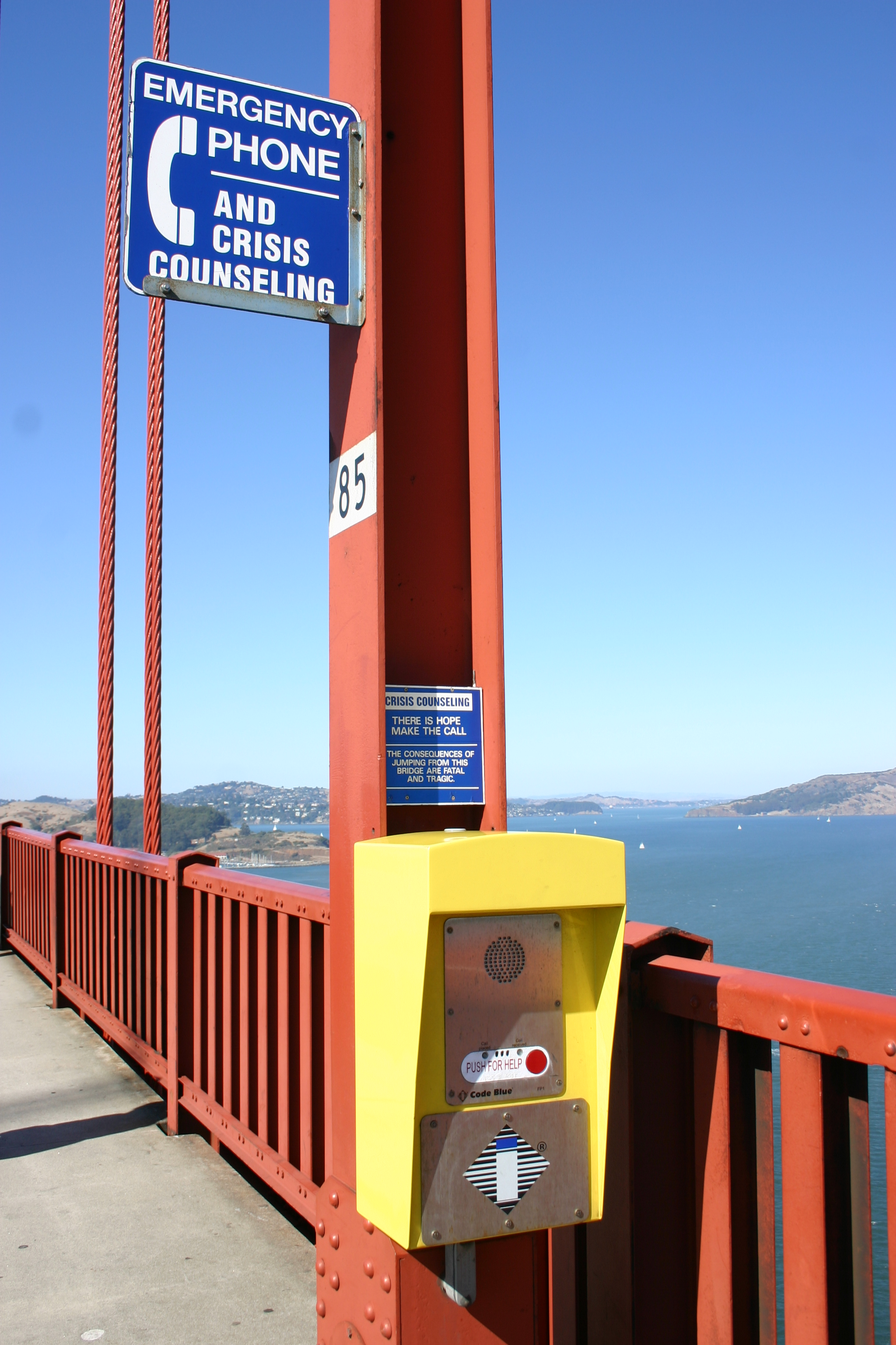 Golden Gate Bridge - Emergency phone